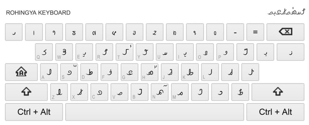 Rohingya virtual keyboard, or Rohingya “on-screen” keyboard, lets you type directly in Rohingya language script in an easy and consistent manner, no matter where you are or what computer you’re using.